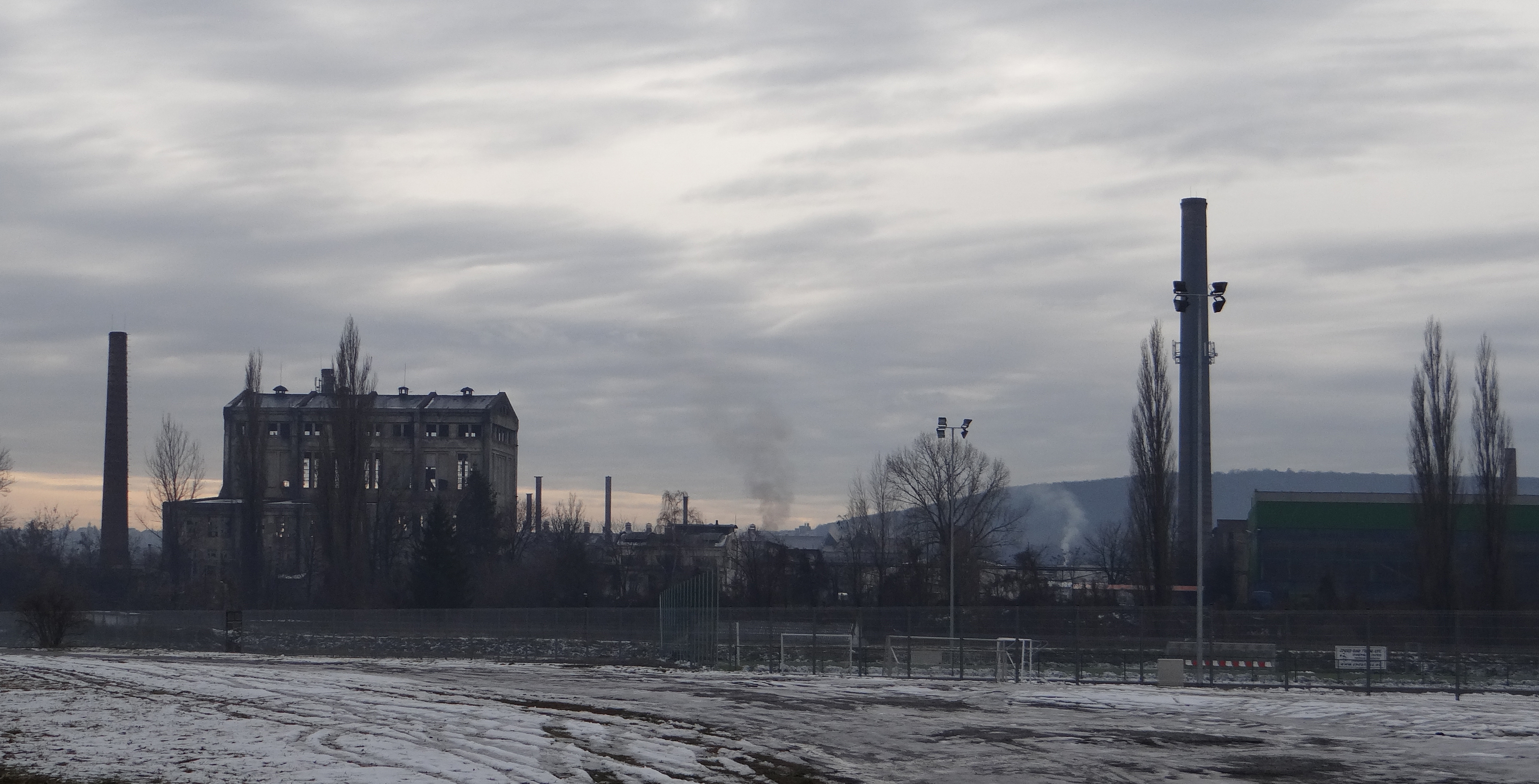 The Diósgyőr Machine Works in the direction of the stadium DVTK, Miskolc, Hungary.